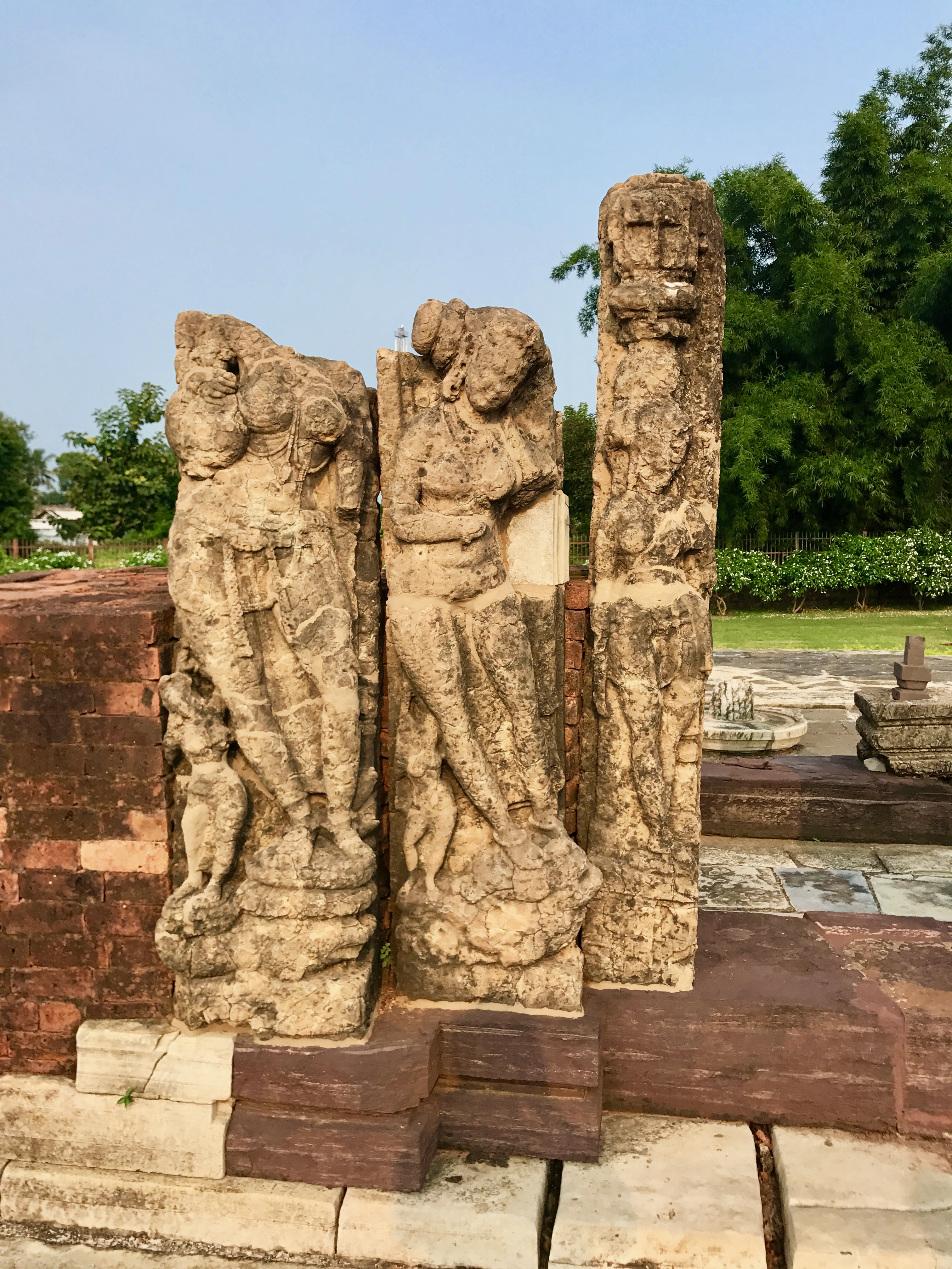 The Baleshwar Shiva temple complex is a ruin and archaeological site. It shows foundation and plinth layouts of several temples. The site has yielded numerous statues (predominantly Hindu gods / goddesses / ideas), reliefs, pillars, temple parts and Shiva linga. Sirpur, also referred in medieval era texts as Shripur (city of wealth), is a town on the banks of Mahanadi in Chhattisgarh. The site became archaeologically significant after a visit and report on a Laxman (Lakshmana) temple in 1872 by Alexander Cunningham, a colonial British India official. Sirpur is mentioned in the memoirs of the Chinese traveler Hieun Tsang as a location of monasteries and temples. The site has been significant for its temple ruins of Rama and Lakshmana of the Ramayana fame. The site excavations after 1960, particularly after 2003, have yielded 22 Shiva temples, 5 Vishnu temples, 10 Buddha Viharas, 3 Jain Viharas, a 6th/7th century market and snana-kund (bath house). The site shows extensive syncretism, where Buddhist and Jain statues or motifs intermingle with Shiva, Vishnu and Devi temples. The region was conquered and plundered by the armies of Delhi Sultanate and later Deccan Sultanates. The town and temples were damaged in the wars and were abandoned.There is also evidence of possible earthquake or ground sinking damage. Dense vegetation grew over it and floods deposited silt. 20th and 21st century excavations have unearthed many monuments. The site is large and artwork stick out of farmlands and dirt roads in and near Sirpur.